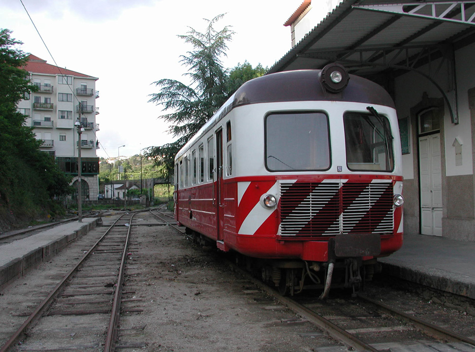 Railcar of Linha da Tâmega sits in Amarante station.